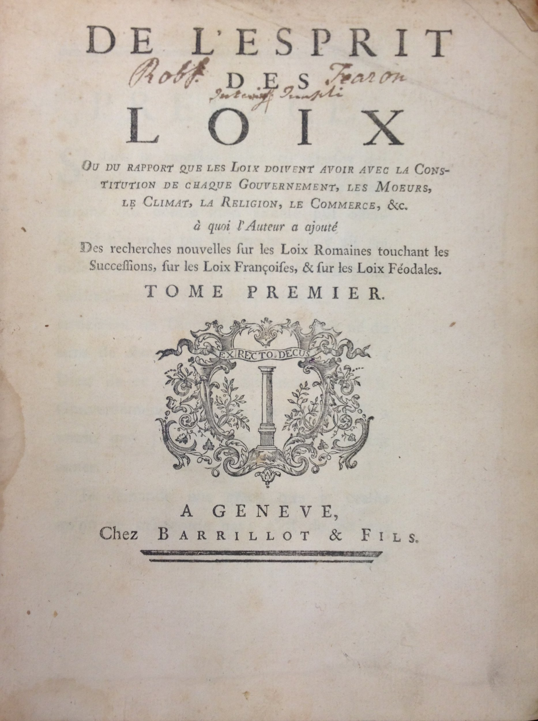 The title page of volume 1 of Charles-Louis de Secondat, Baron de La Brède et de Montesquieu (1748) De l'Esprit des loix ou du rapport que les Loix doivent avoir avec la Constitution de chaque Gouvernement, les Moeurs, le Climat, la Religion, le Commerce, &c : à quoi l'Auteur a ajouté Des recherches nouvelles sur les Loix Romaines touchant les Successions, sur les Loix Françoises, & sur les Loix Féodales [The Spirit of the Laws, or the rapport that the Laws should have with the Constitution of each Government, the Customs, the Climate, the Religion, the Commerce, &c: to which the Author has added new research on the Roman Laws concerning Succession, on French Laws, and on the Feudal Laws], Geneva: Barrillot & Fils OCLC: 150438488.